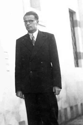 Daniel Solod, photographed in 1944 in Syria